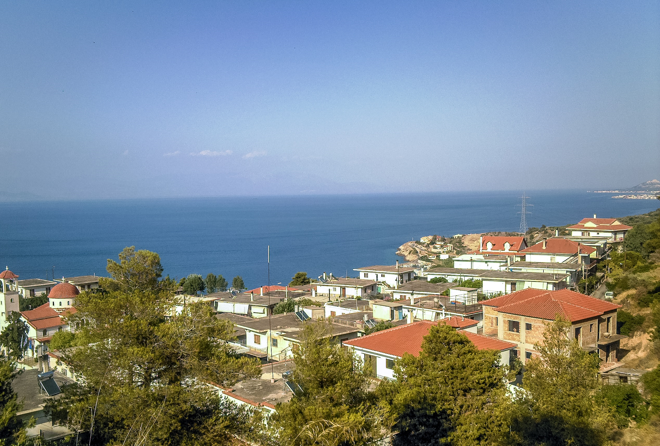 View of Egira, Achaia, Greece.